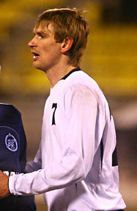 Andrei Kolesnikov in action for FC Torpedo Moscow